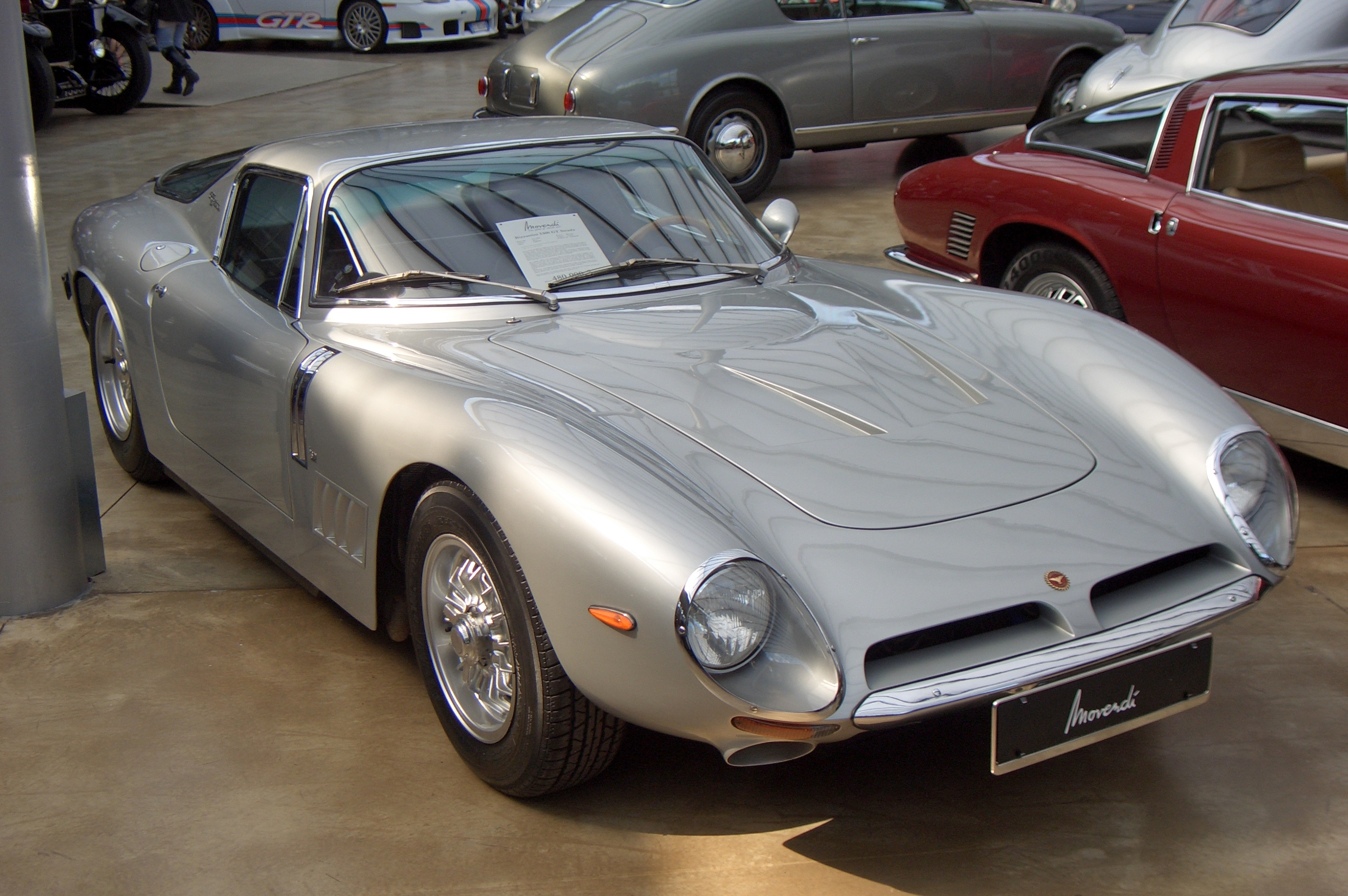 Iso Grifo-based Bizzarrini 5300 GT Strada, 1966, seen at CLASSIC REMISE, Duesseldorf, Germany